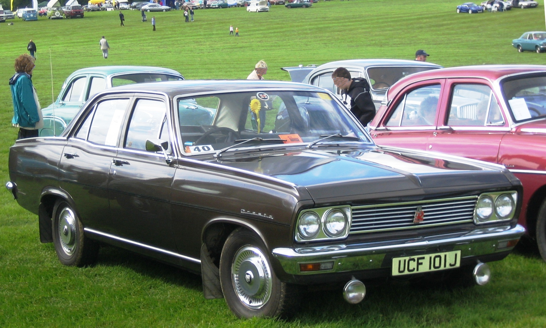 Vauxhall Cresta PC. The last of the Crestas